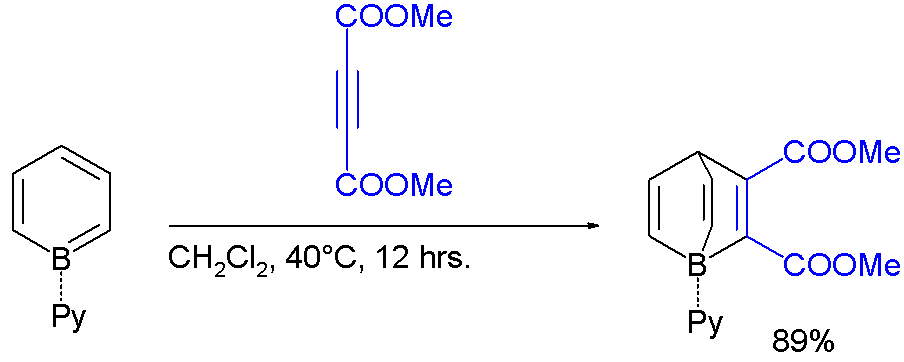 Borabarrelene synthesis